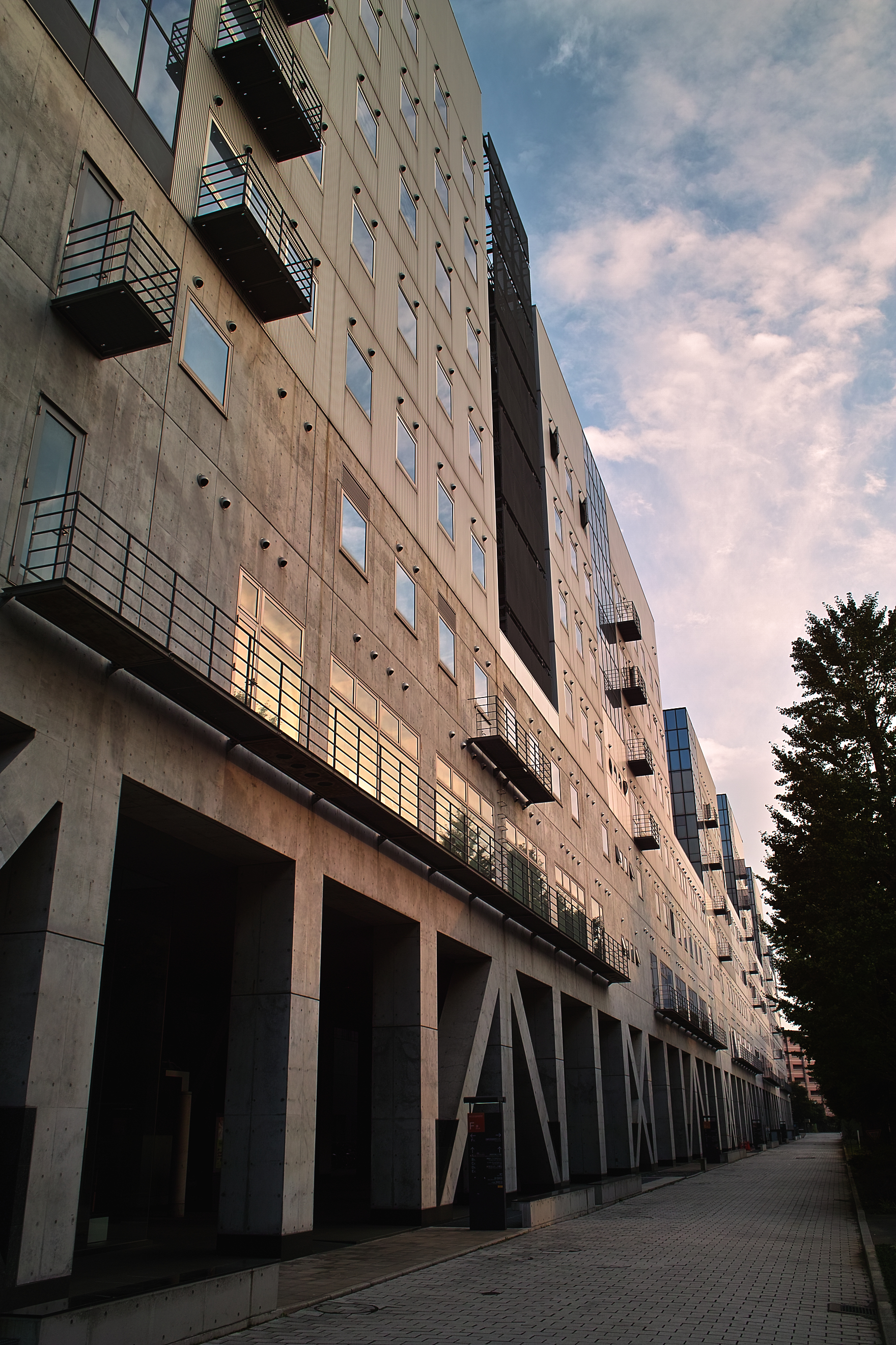 Institute of Industrial Science, at Komaba, the University of Tokyo, Japan.